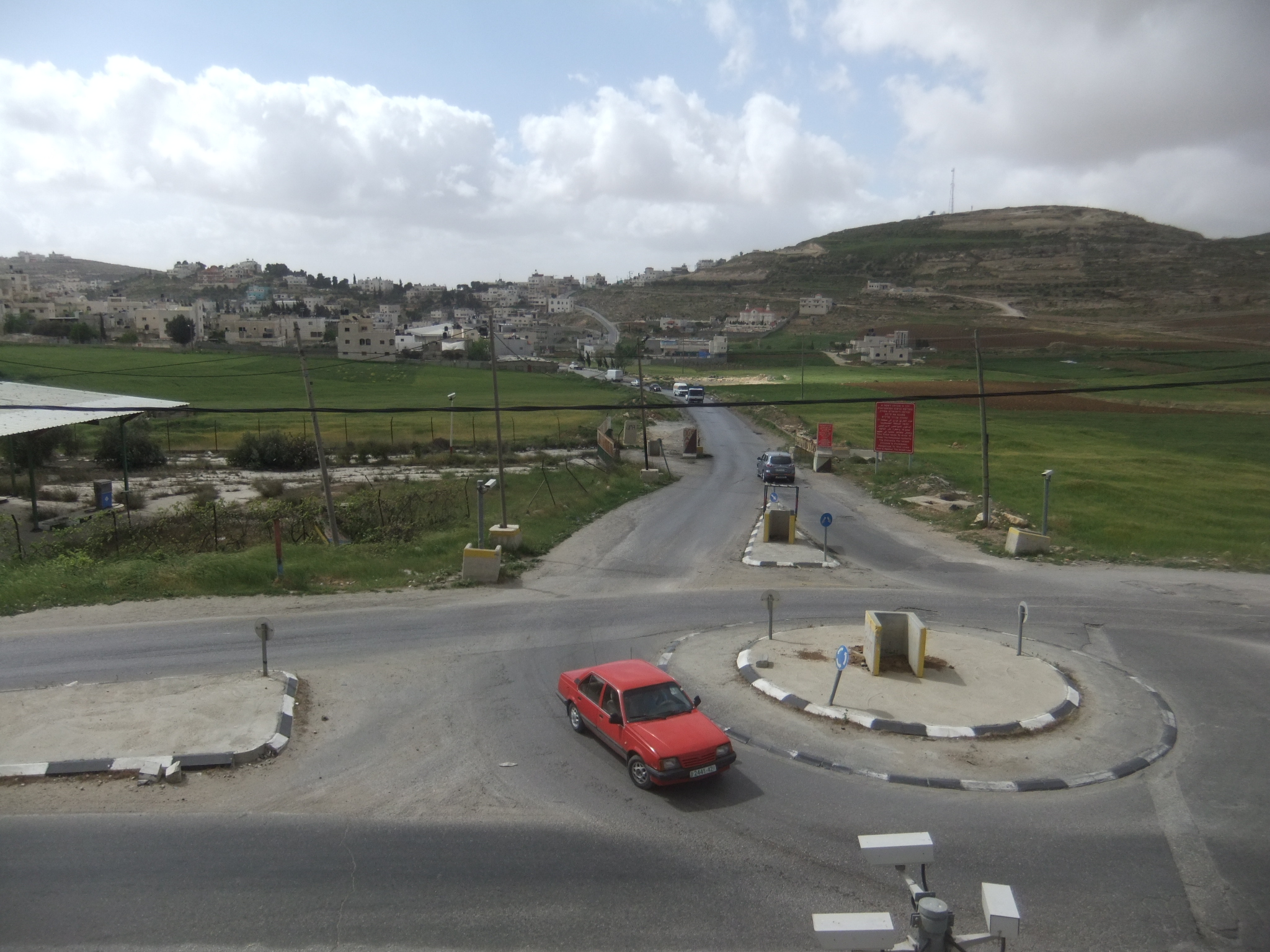 Fawwar, Hebron